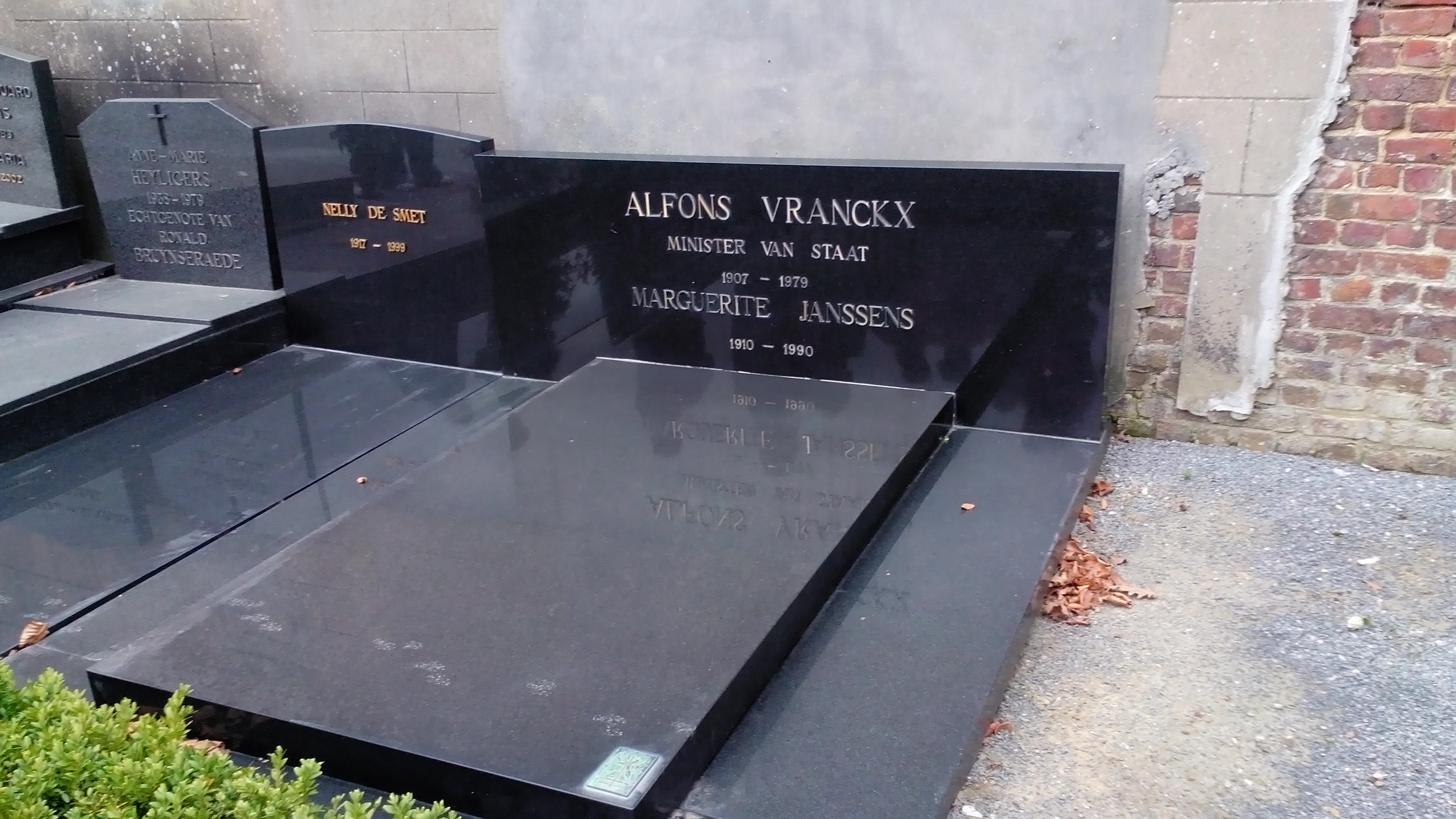 Tombstone of Alfons Vranckx & Marguerite Janssens